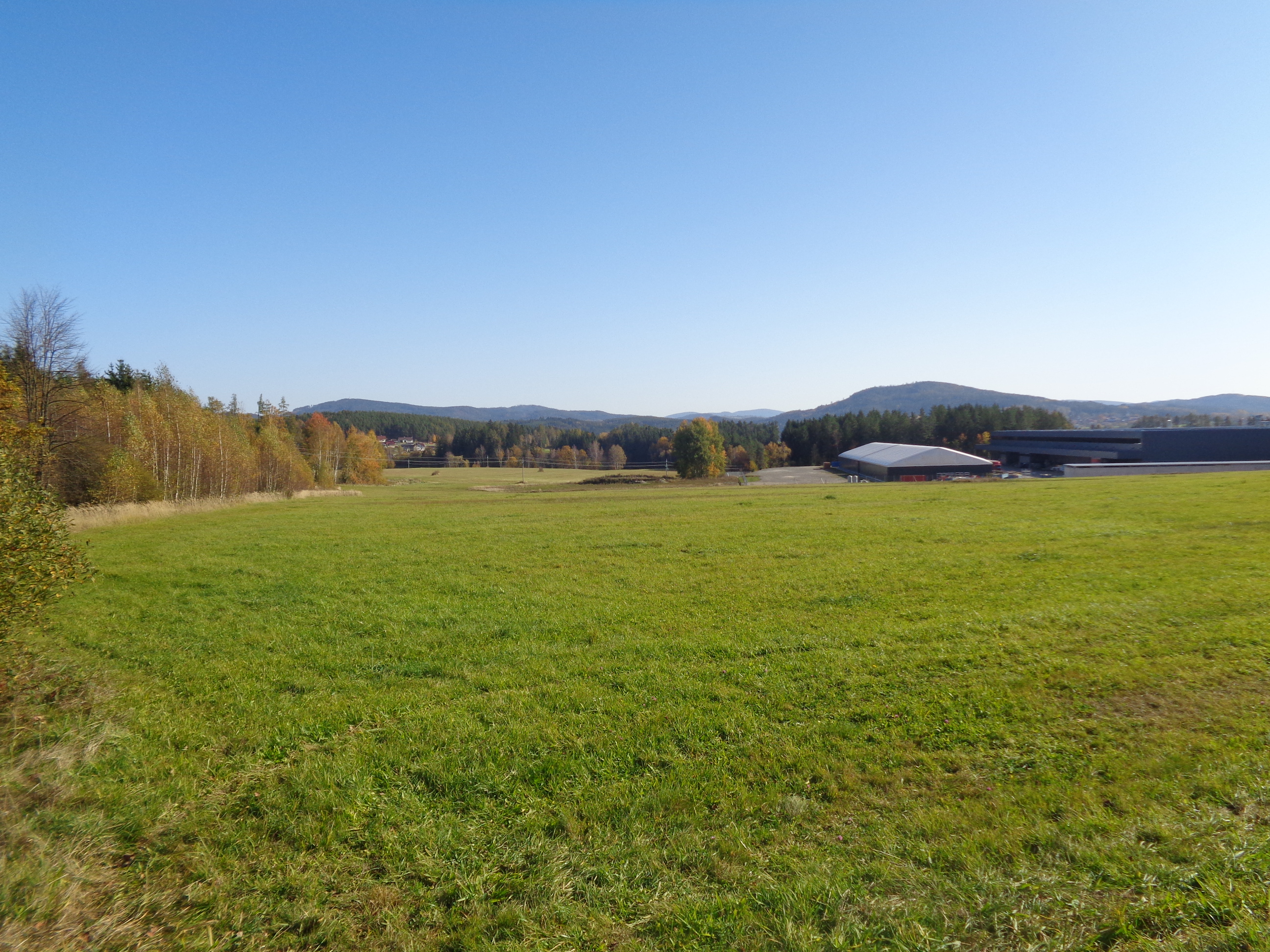 Hradišťský vrch, Kaplice